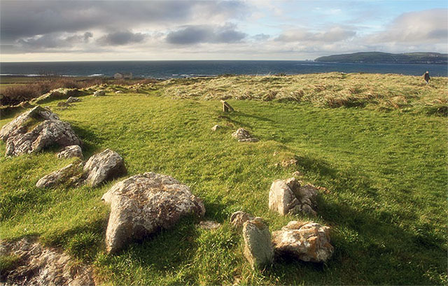 Viking Ship Burial Another view. The burial of a Viking settler, richly-adorned and with a woman and livestock, is thought to date from the late ninth century. It overlays earlier Christian burials.